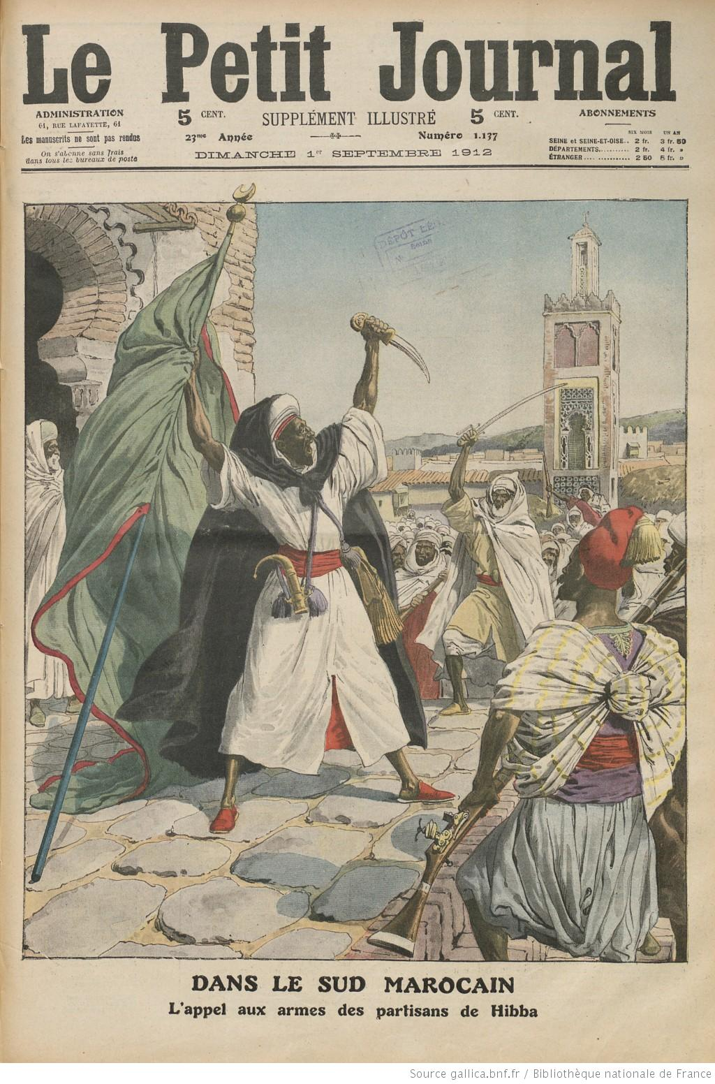 "Dans le Sud Marocain, l'appel aux armes des partisans de Hibba" ("In the Moroccan south, the call to arms of the partisans of al-Hibba"), illustration published in Le Petit Journal, Paris, No. 1137, 1 September 1912